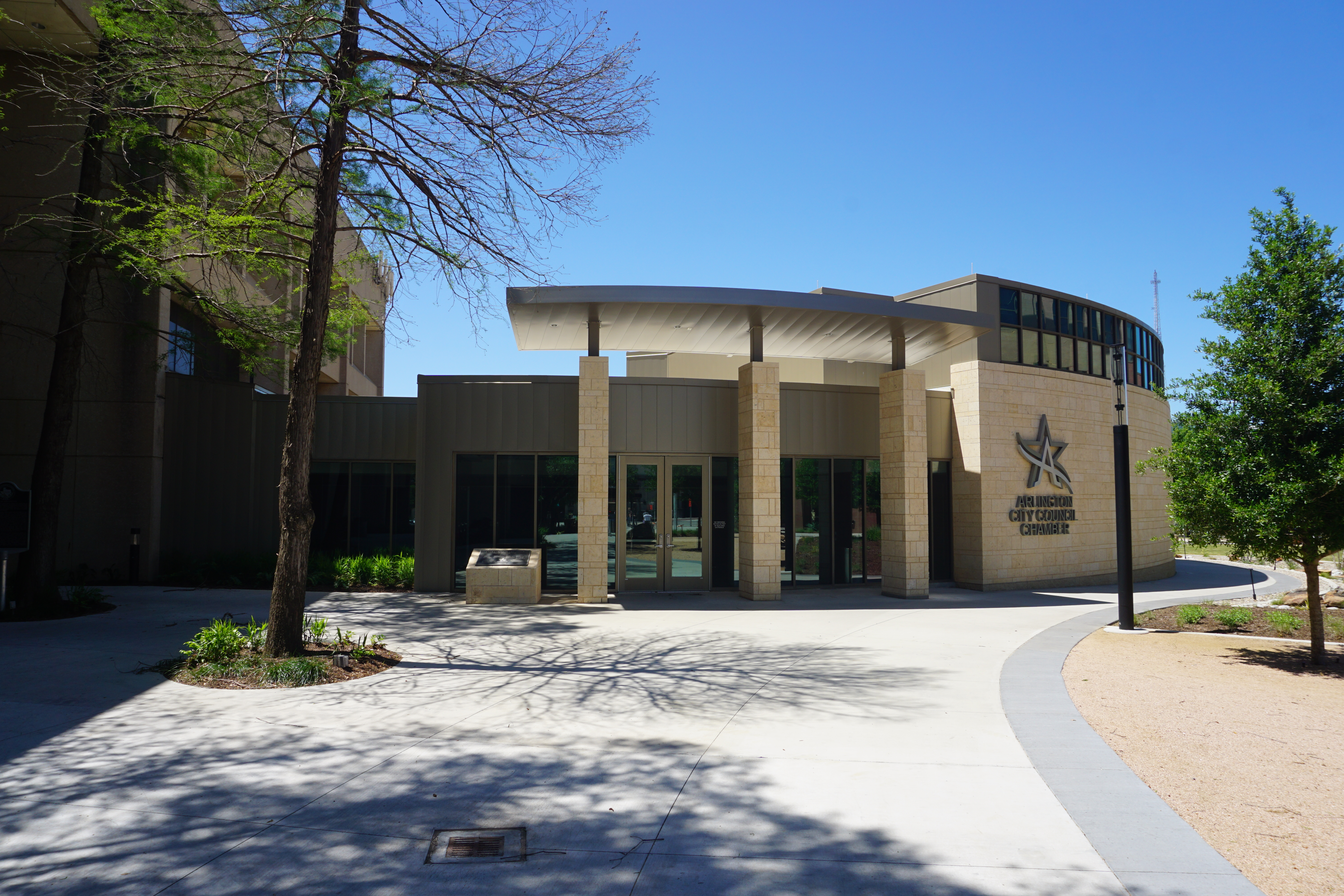 The Arlington City Council Chamber in Arlington, Texas (United States).